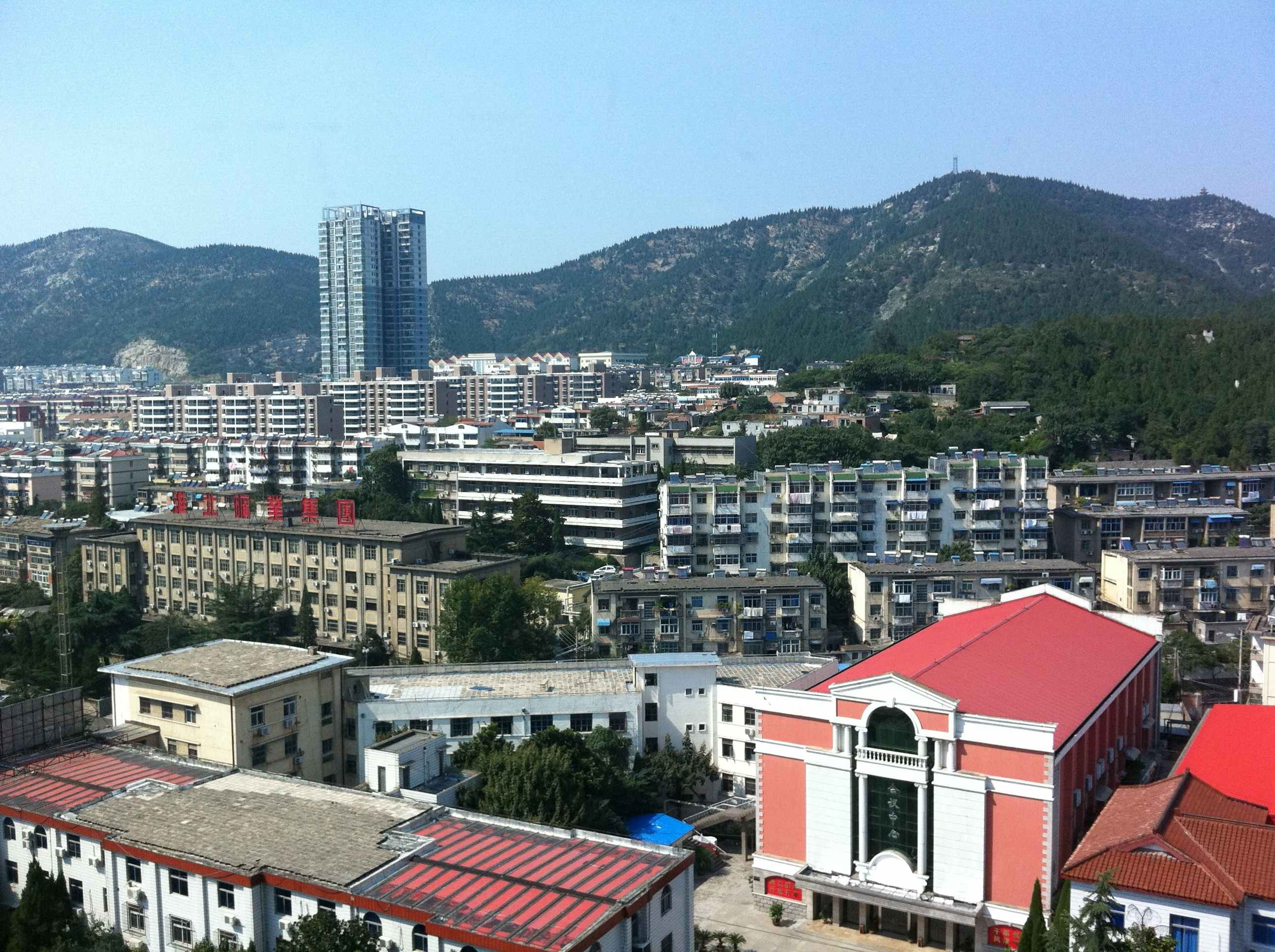 View of City of Huaibei, China. Taken facing east from Xiang Wang Fu Hotel, 12th floor.